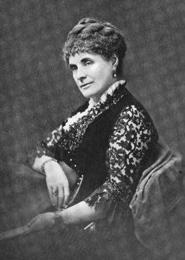 Image of American writer Louise Chandler Moulton. From Louise Chandler Moulton: Poet and Friend by Lilian Whiting, published by Little, Brown, and Company, 1910 (p. 122)